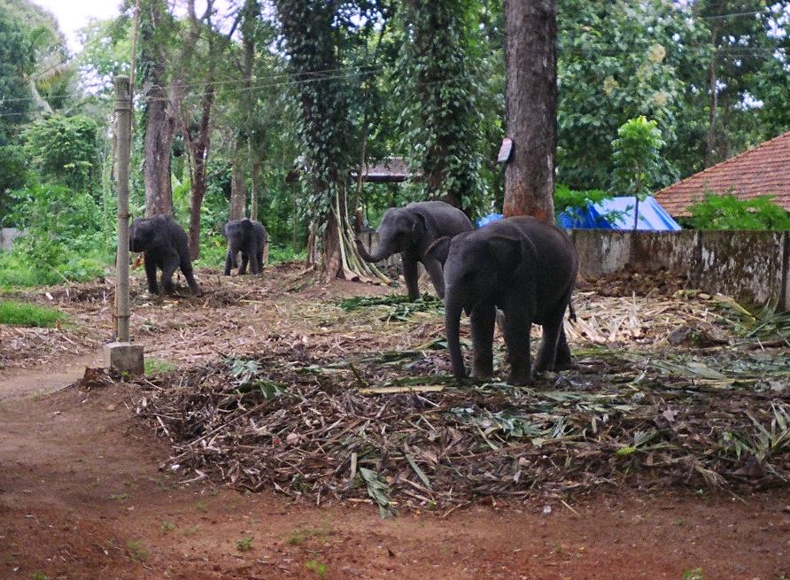 Baby Elephants at Kodanad, Kerala, India